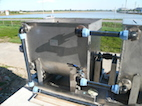 Modulo RCBR combinato